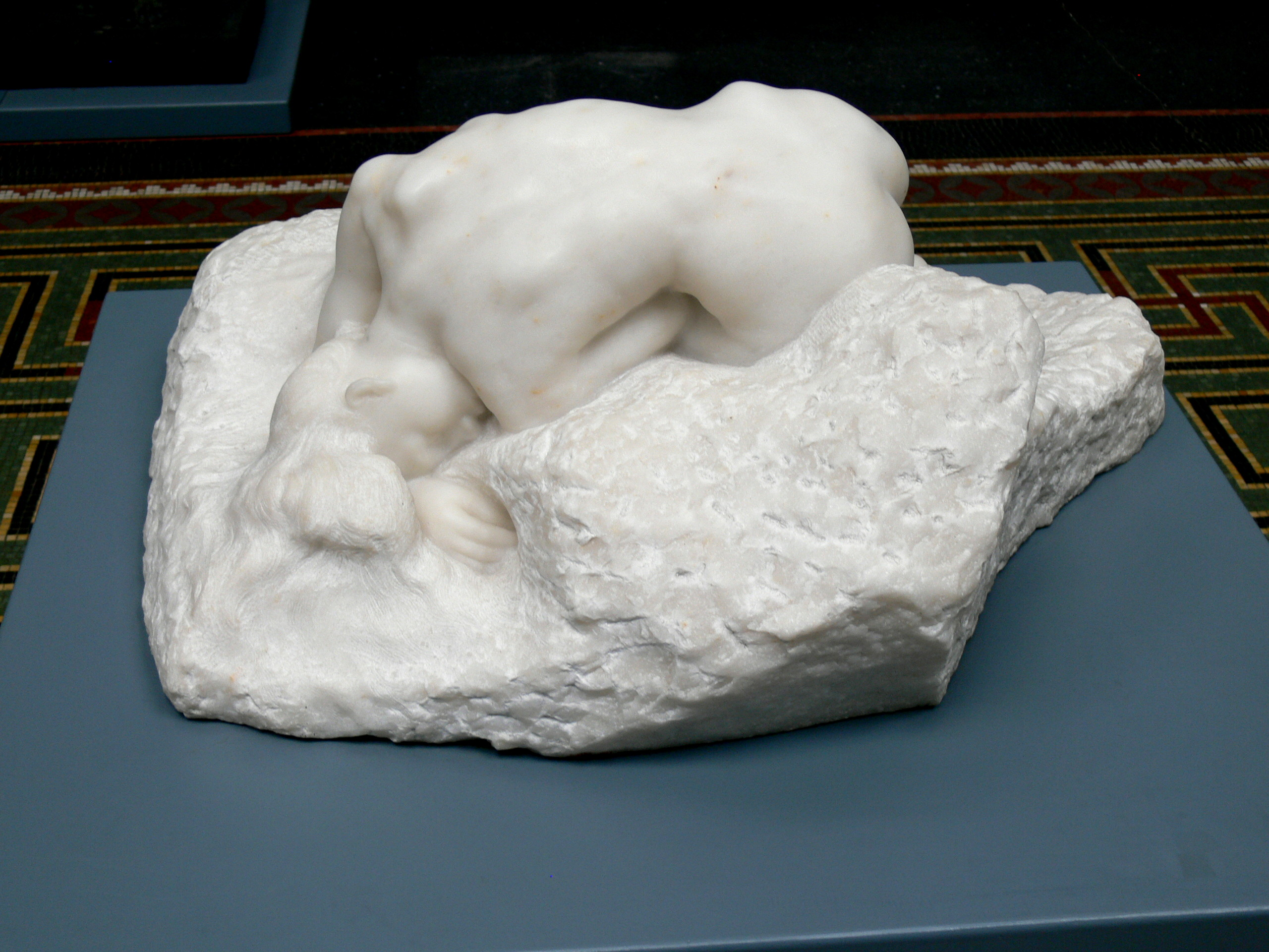 Ny Carlsberg Glyptothek, Copenhagen. "Danaide" ( 1901 ) by Auguste Rodin.